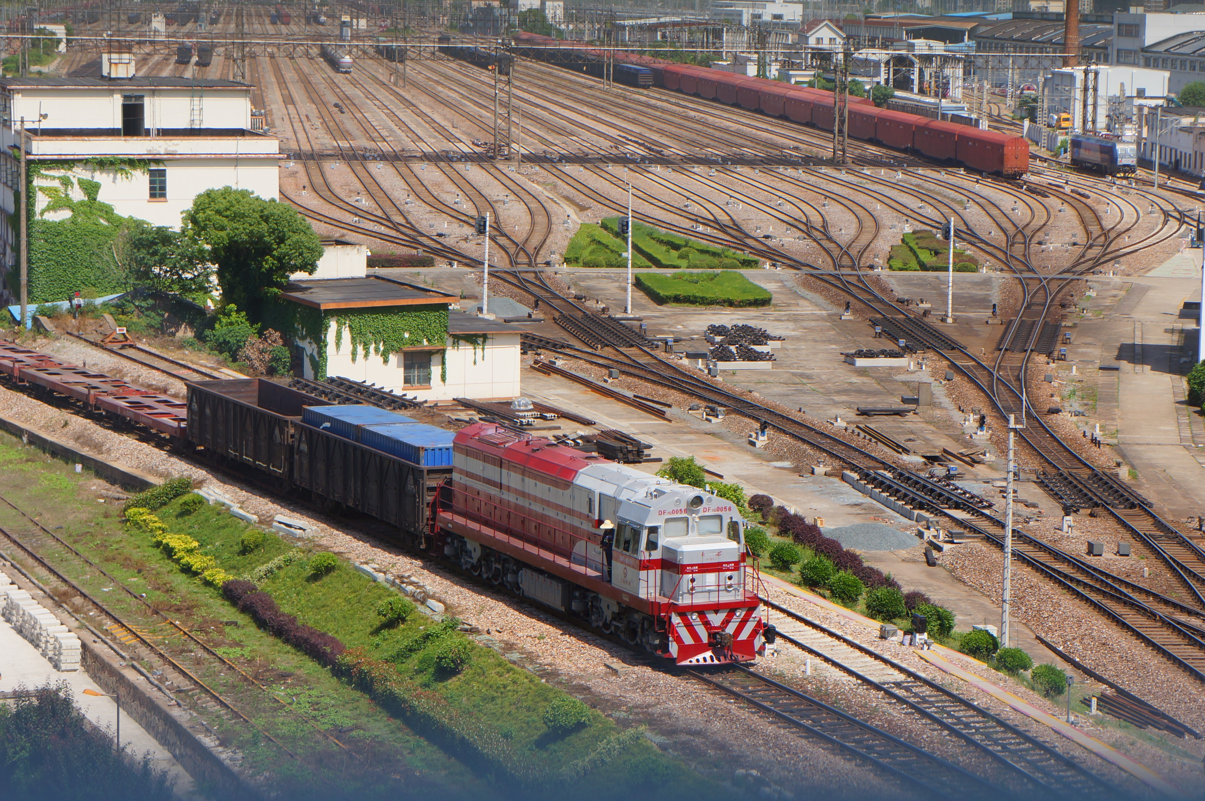 201805 DF7G-0056 at Nanxiang